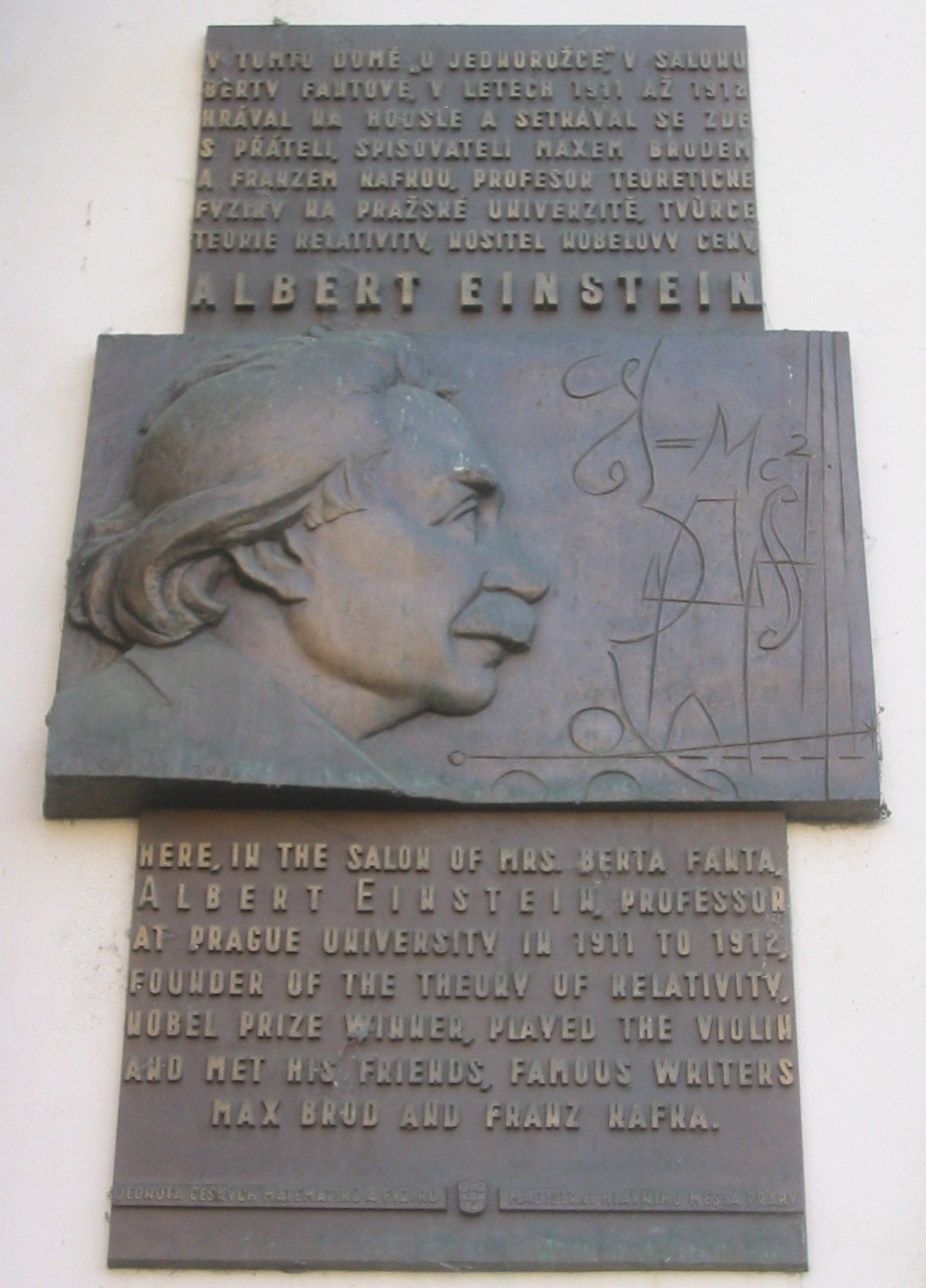 Plaque of Albert Einstein on the house No. 551/17, Old Town Square, Prague, the Czech Republic. Text: "V tomto domě „U jednorožce“, v salonu Berty Fantové, v letech 1911 až 1912 hrával na housle a setkával se zde s přáteli, spisovateli Maxem Brodem a Franzem Kafkou, profesor teoretické fyziky na pražské univerzitě, tvůrce teorie relativity, nositel Nobelovy ceny, Albert Einstein. — Here, in the salon of Mrs. Berta Fanta, Albert Einstein, professor at Prague University in 1911 to 1912, founder of the theory of relativity, Nobel Prize winner, played the violin and met his friends, famous writers Max Brod and Franz Kafka."